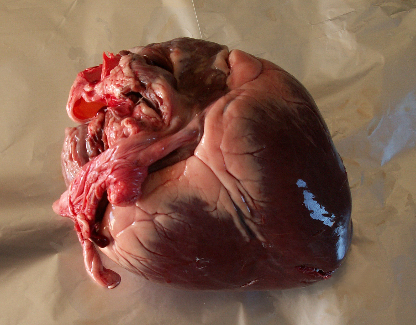 Heart